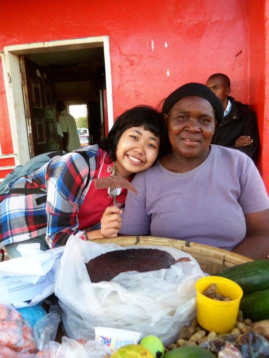 GNC THAILAND 5